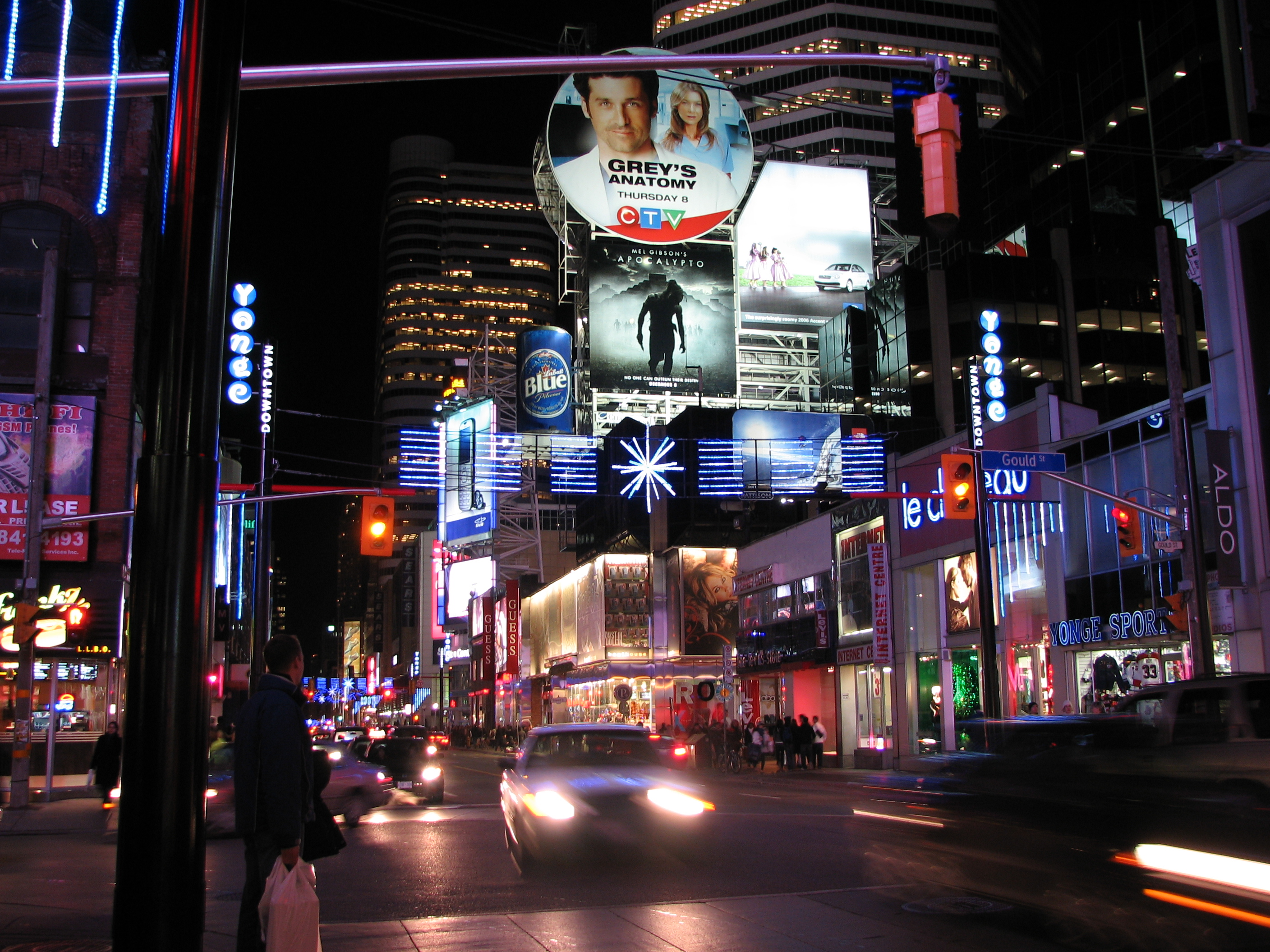 Runnin' the yellow light...Yonge Street, Toronto, Canada